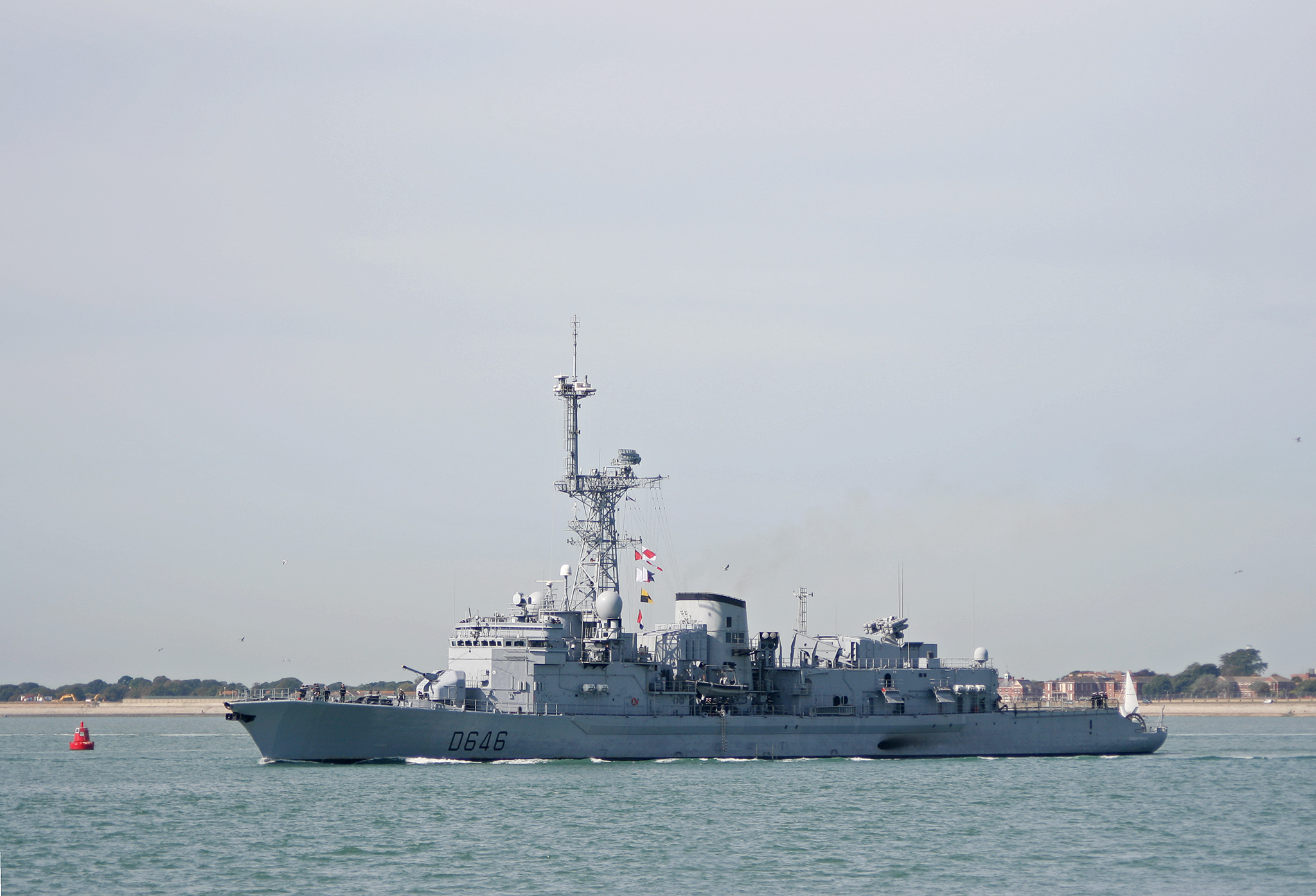 French Navy warship Latouche-Tréville outward bound from Portsmouth Naval Base, UK, 21st September 2009. Image uploaded by me George.Hutchinson using a photograph supplied by Brian Burnell. The photograph should be attributed to Brian Burnell.